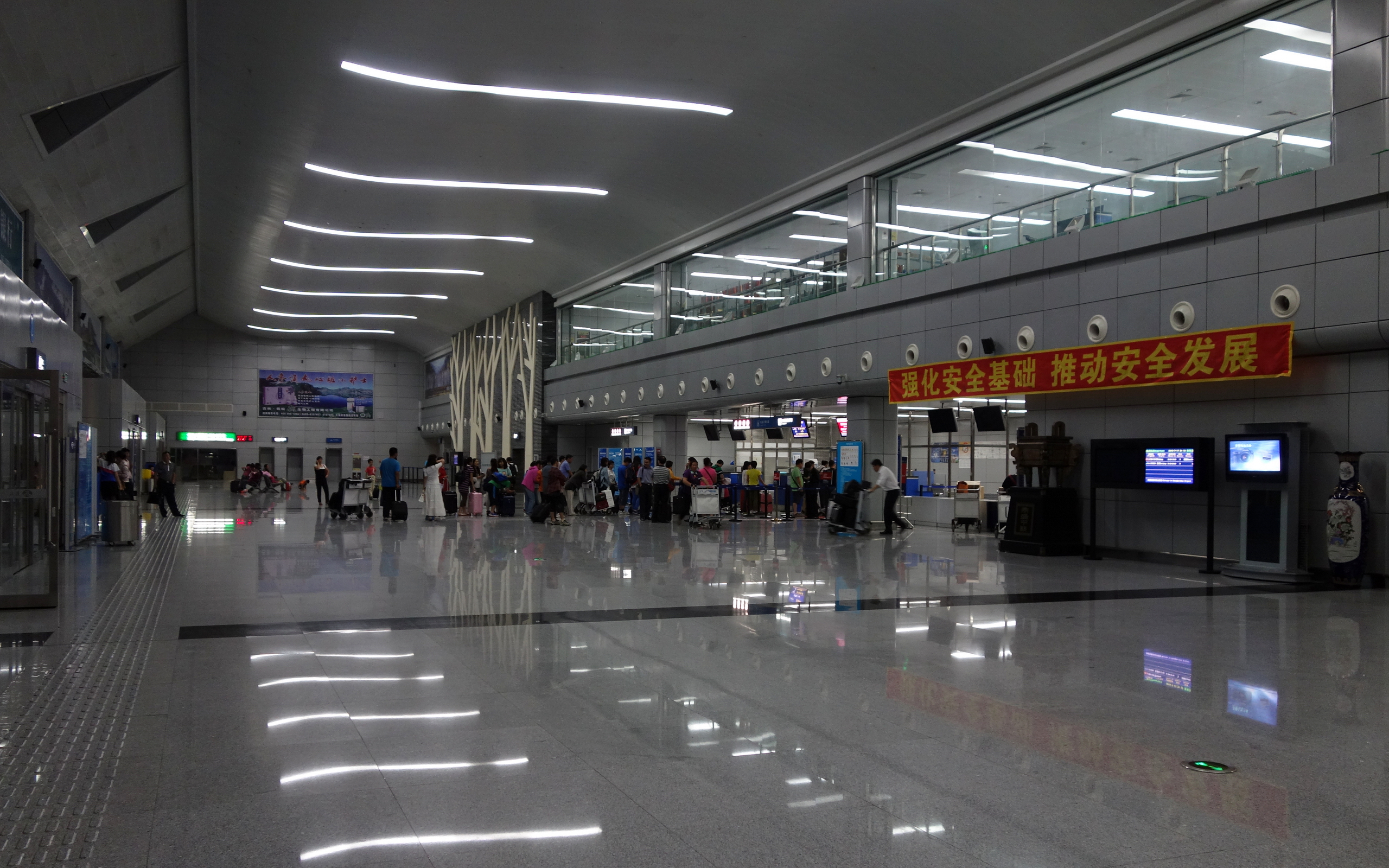 The arrivals/departures hall of Changbaishan Airport